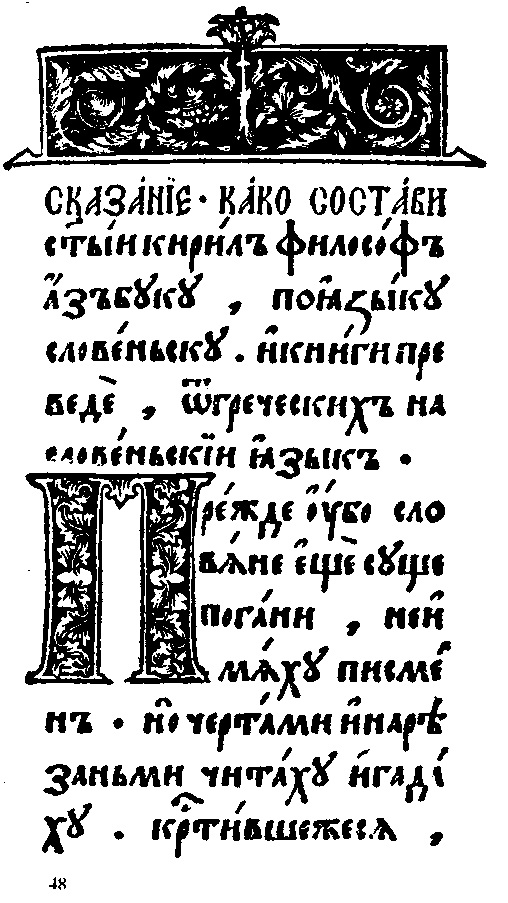 Leaf 40 of the treatise "On letters" by Chernorizets Hrabar in the edition "Острожского букваря" by Ivan Fedorov (Ostrog, 1578).